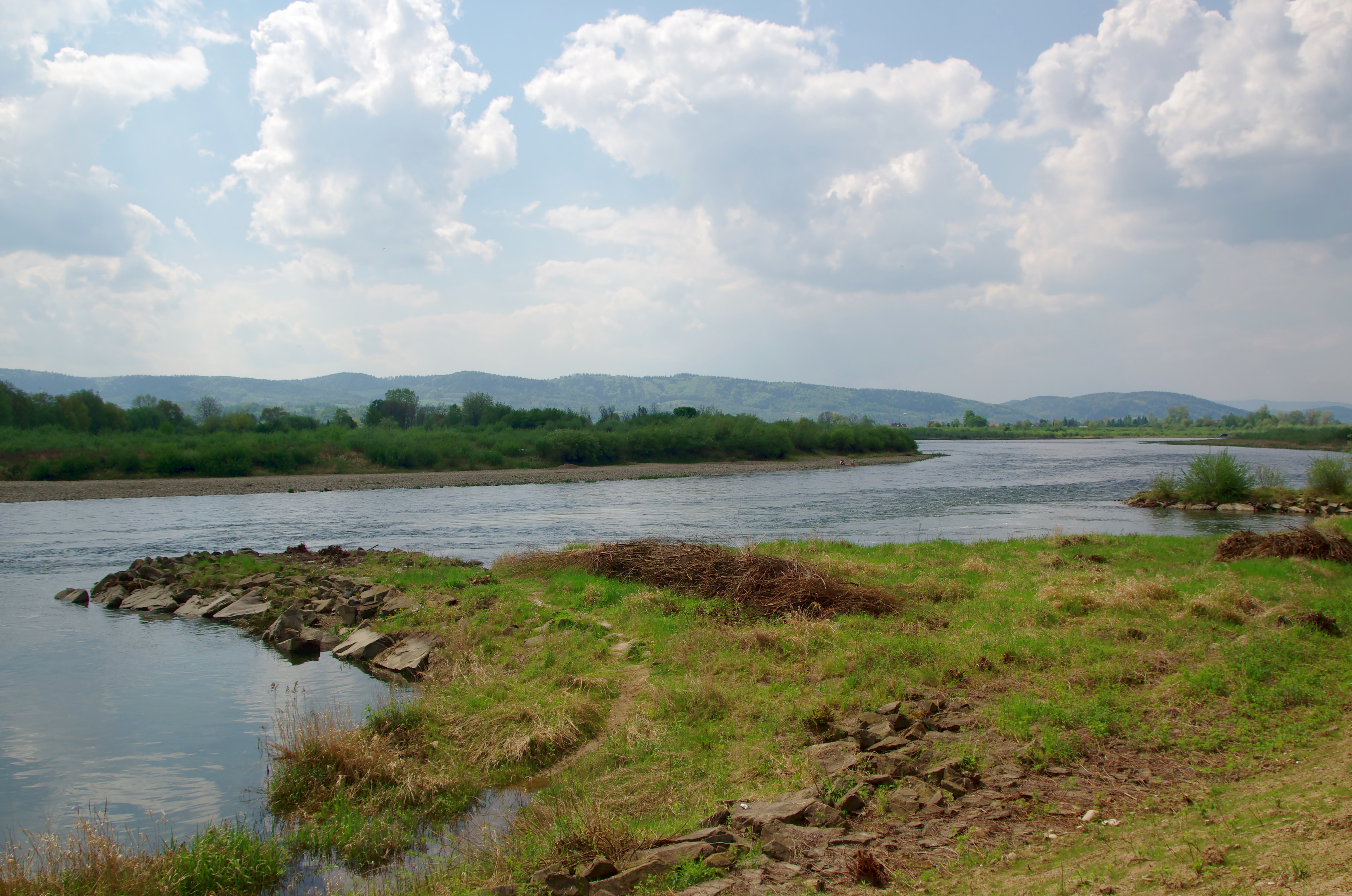 Dunajec River near Melsztyn